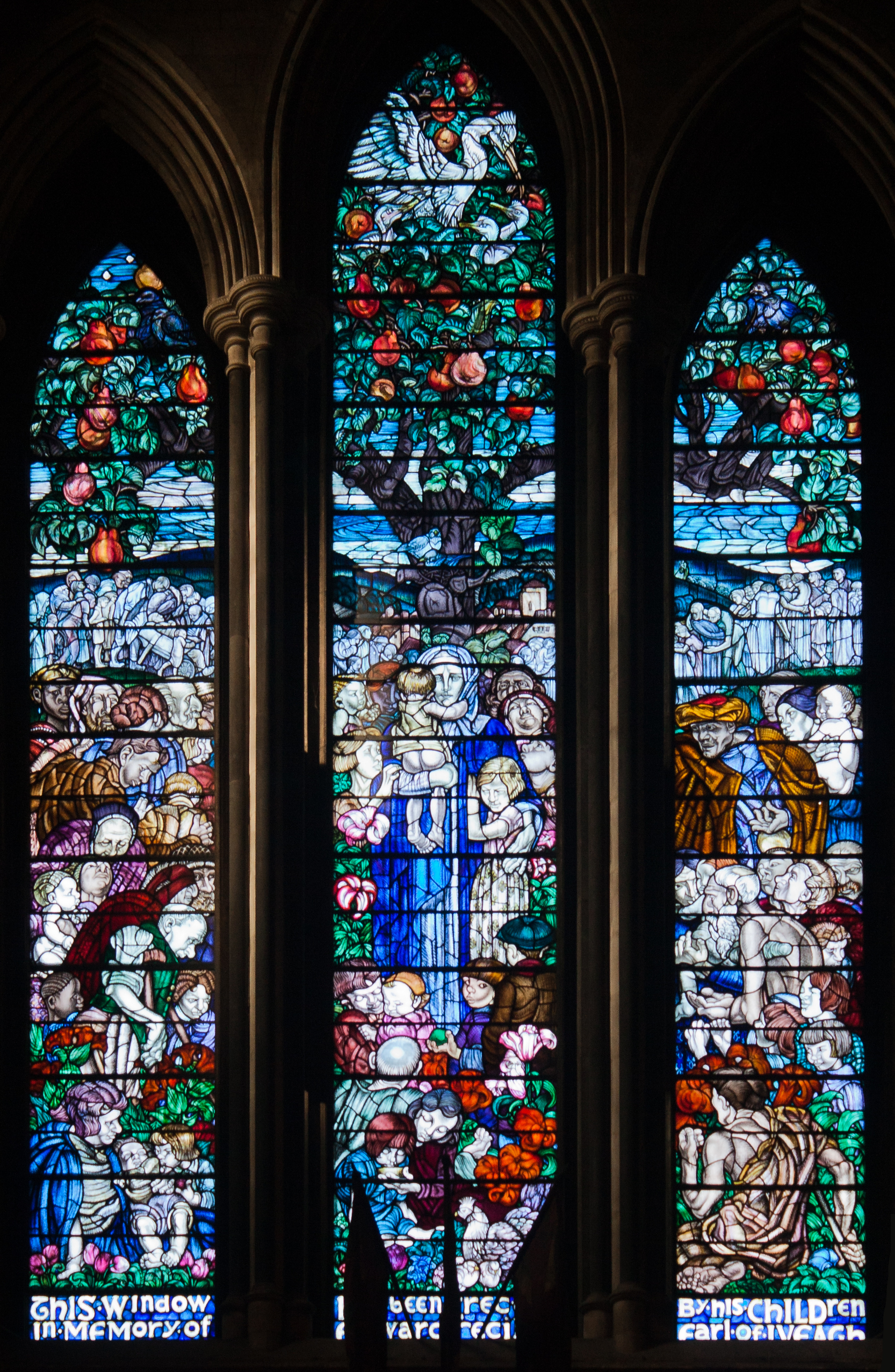 North window in the north transept, depicting Charity. Cartooned by Frank Brangwyn, executed by Alex Strachan, c. 1936. According to the inscription at the bottom the window was erected by the children of the Earl of Iveagh in his memory.